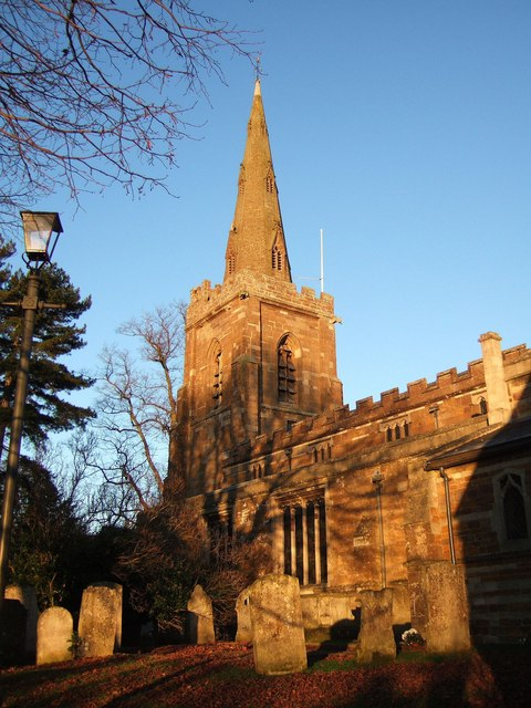 Church of England parish church of SS Peter and Paul, Uppingham, Rutland: view from the southeast corner of the churchyard.